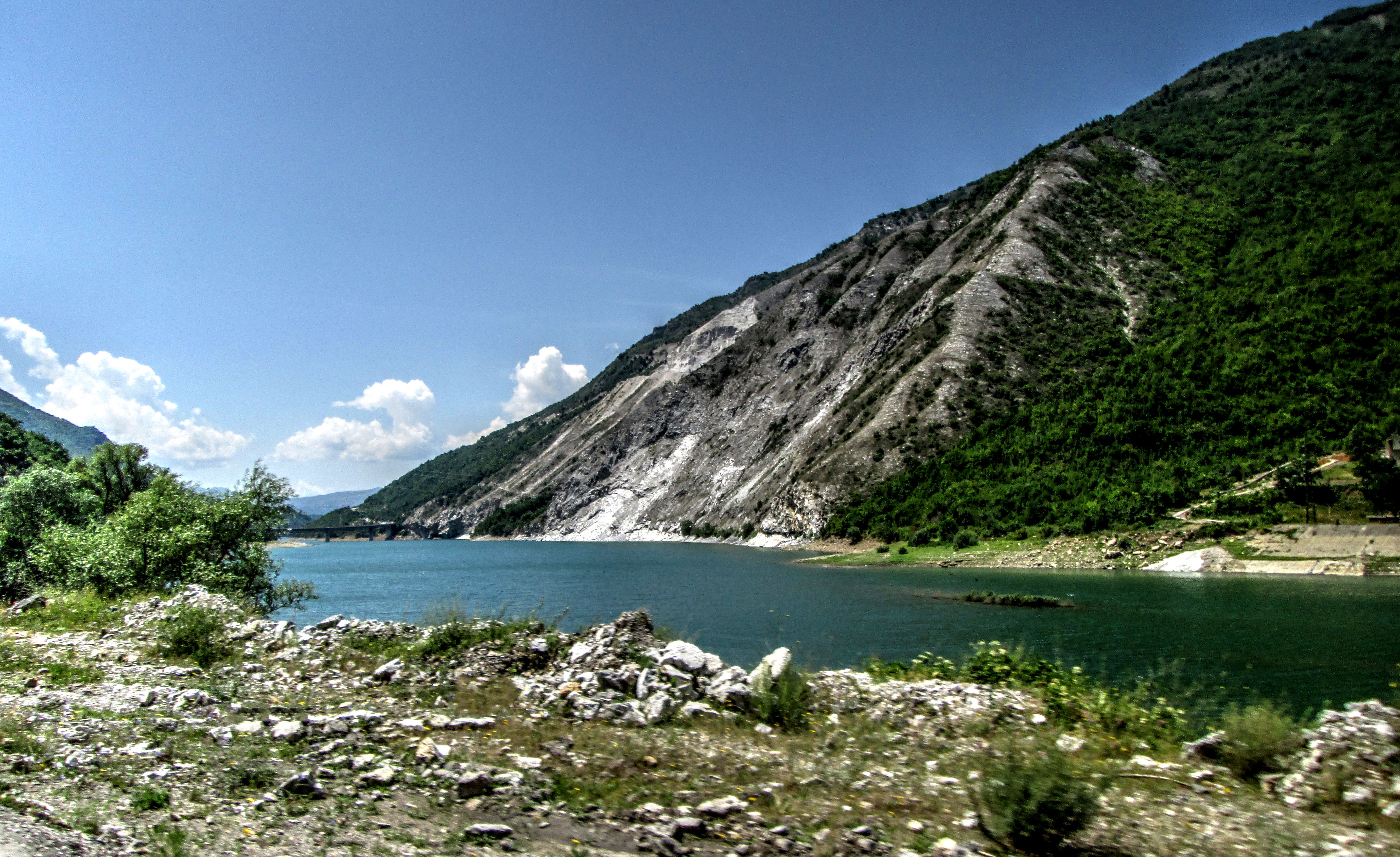 Radika River near the village of Dolno Kosovrasti with Spa Kosovrasti in the Republic of Macedonia.